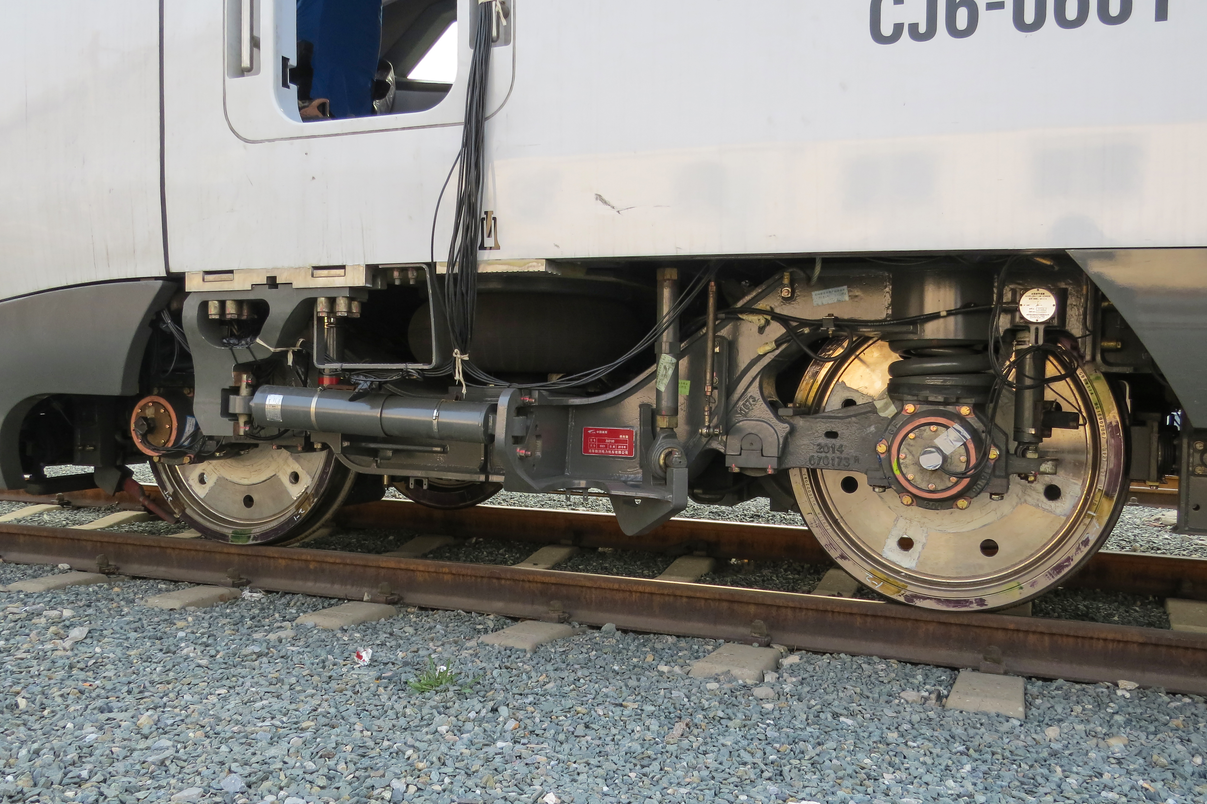 Made in Zhuzhou.